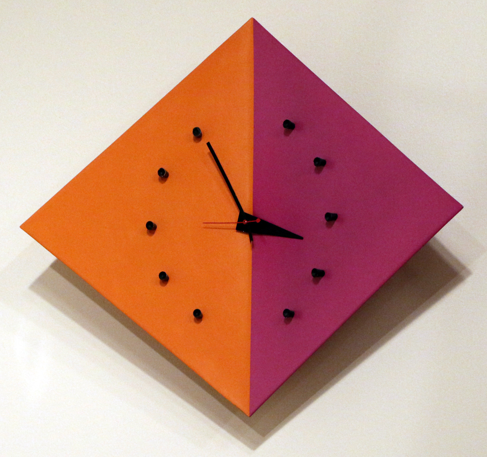 American furniture in the Art Institute of Chicago